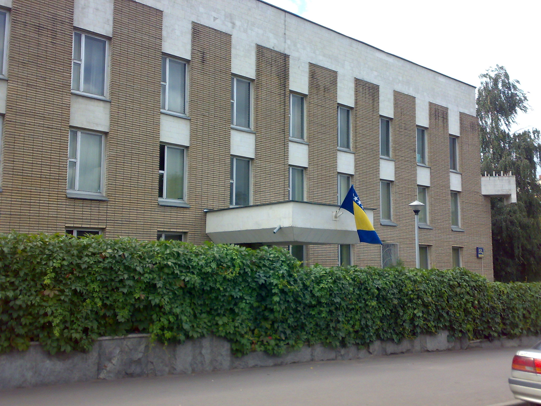 took this image using my mobile on 2 September 2008. The Embassy of Bosnia and Herzegovina, Moscow.